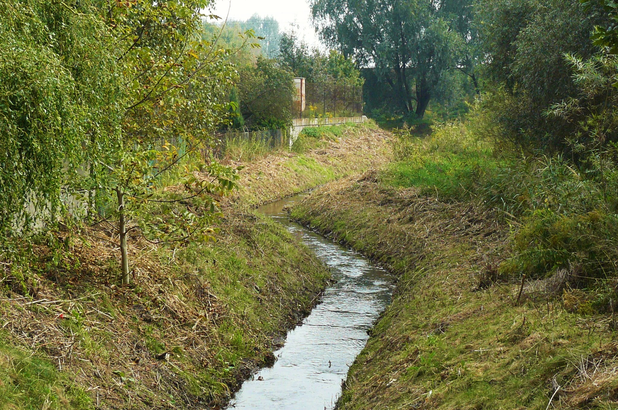 Strumien Junikowski River in Poznan, Misnienska Street.